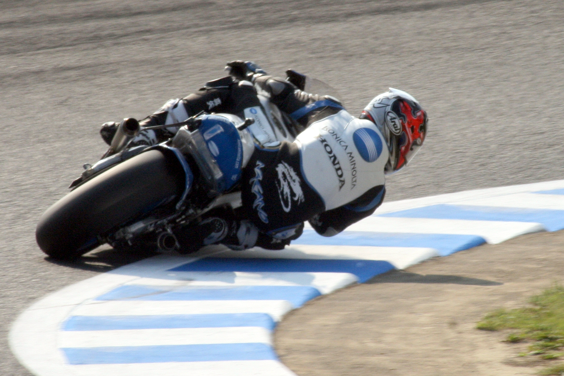 Shinya Nakano on MotoGP 2007